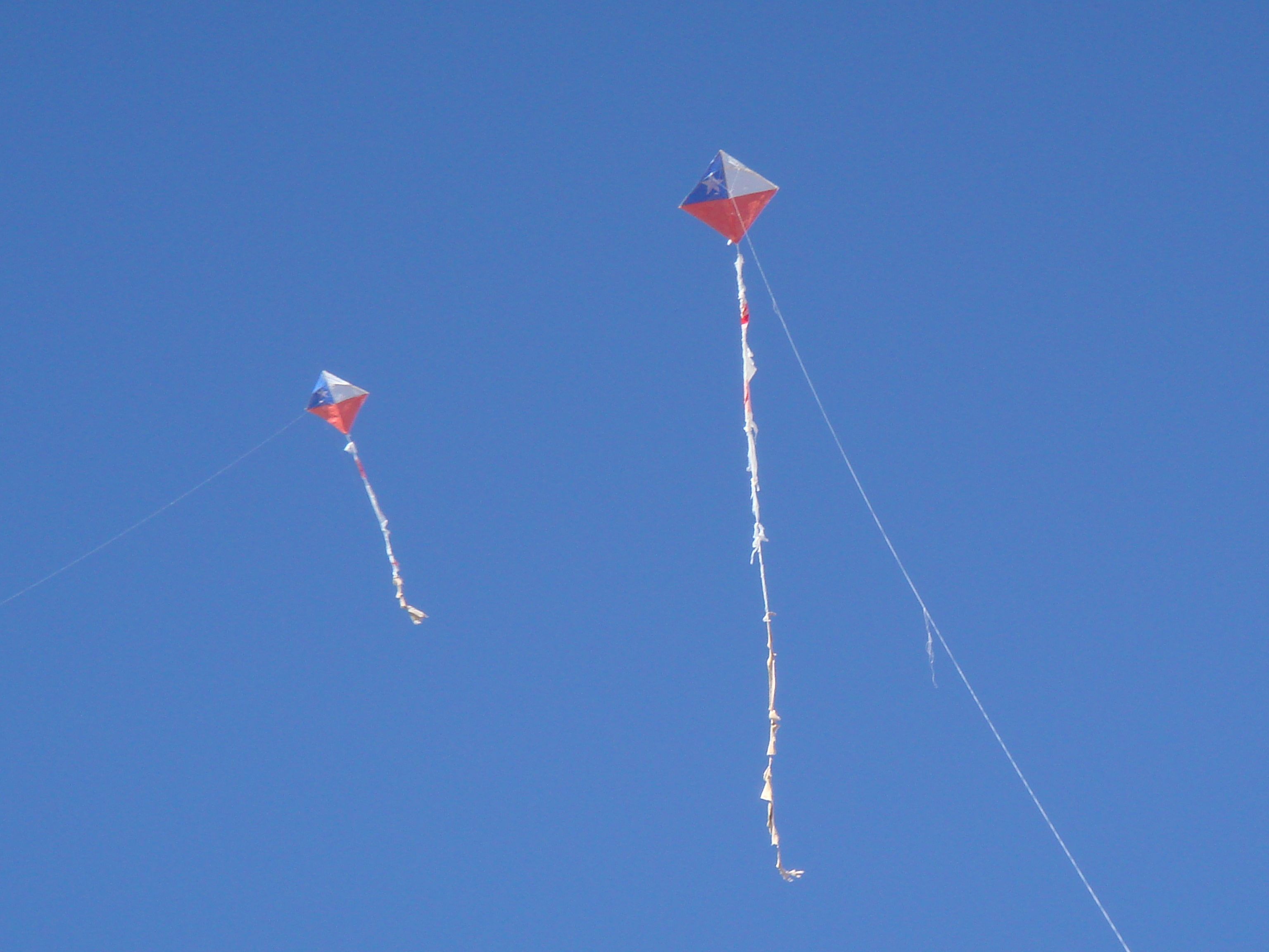 A "Volatín" with chilean flag flying in the sky.